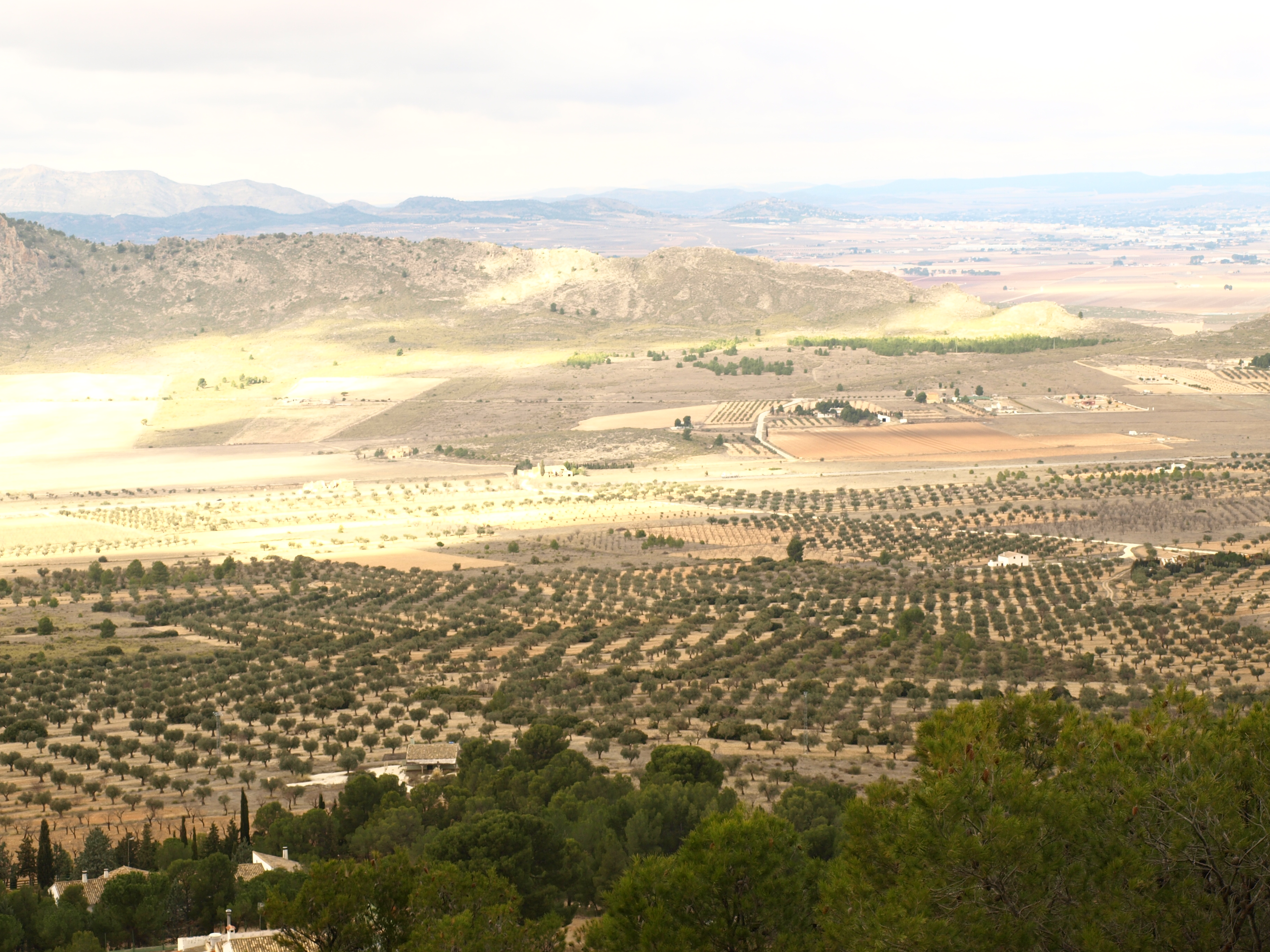 This is a photography of a Special Area of Conservation in Spain with the ID: ES6200008. Natura2000 entry, EEA entry